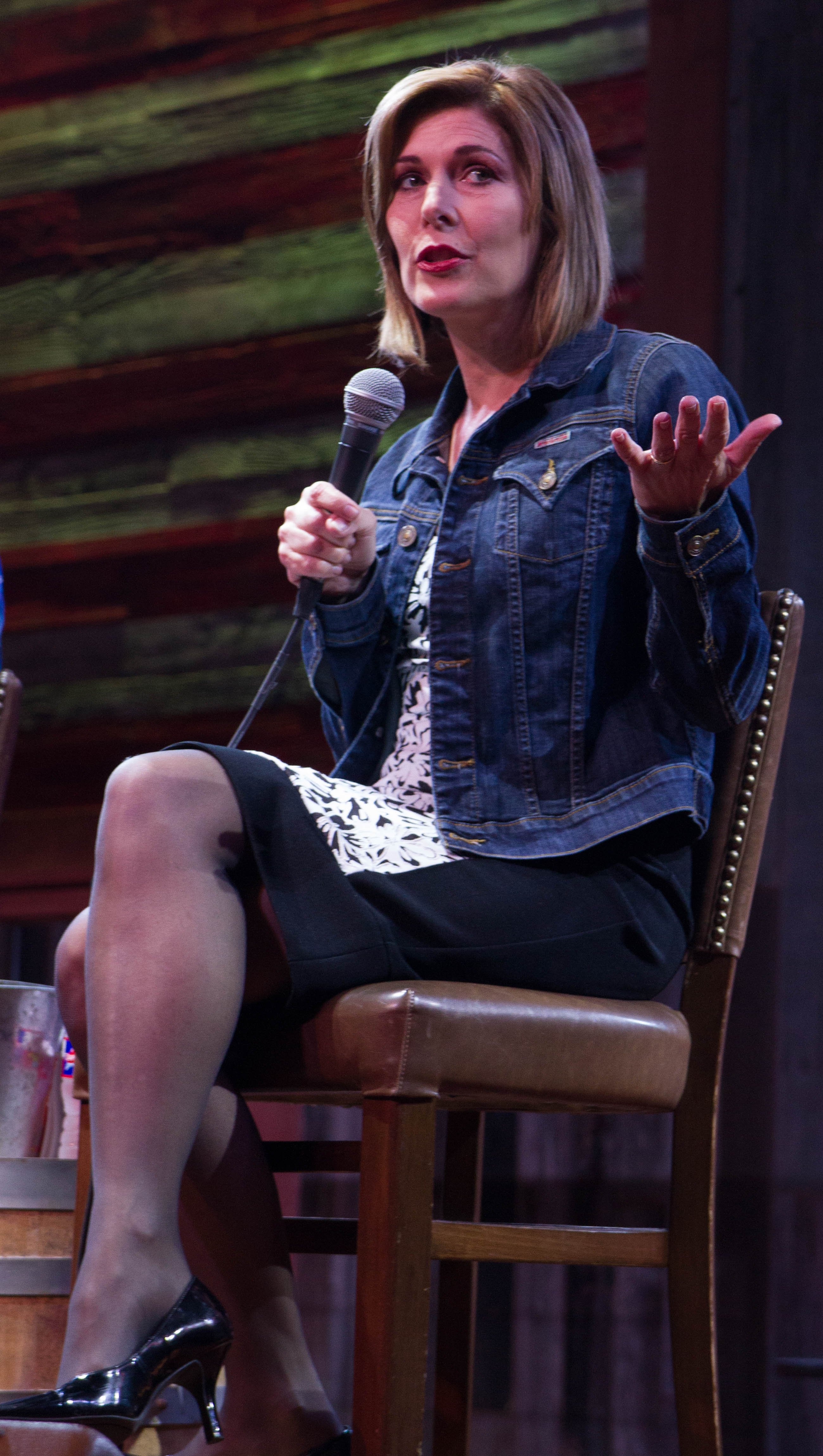 American journalist Sharyl Attkisson at the Redneck Country Club music venue in Stafford, Texas. She spoke and signed copies of her book Stonewalled.